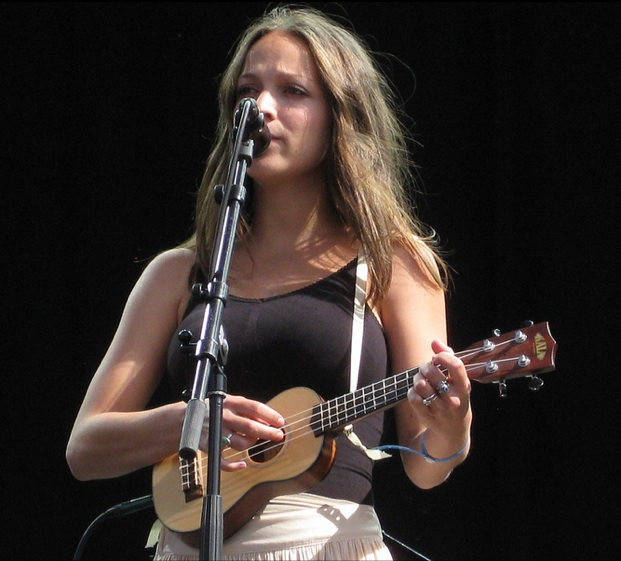 Siri Nilsen with ukulele performing at the annual Øyafestivalen (Island festival), August 10, 2012. The music festival is held at Middelalderparken (Medieval park) in Nilsen's hometown of Oslo, Norway